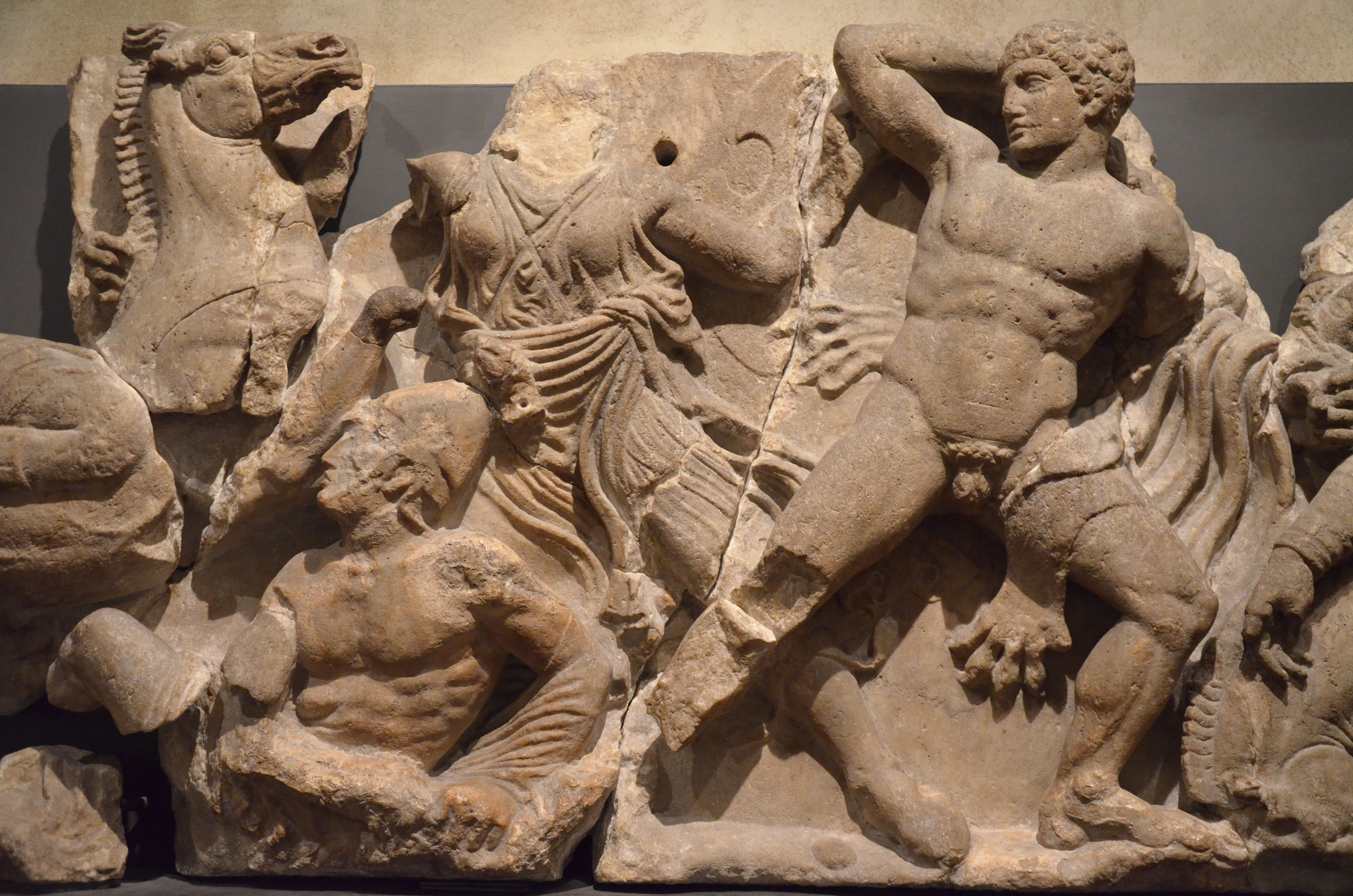 On the south and south east sides of the frieze are arranged a series of slabs showing the battle fought by Herakles and the Greeks against the Amazons, the mythical race of warrior-women.